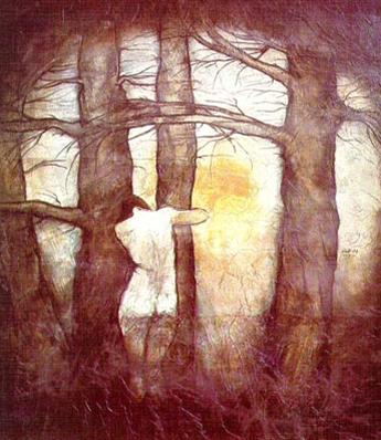 ليلى العطار